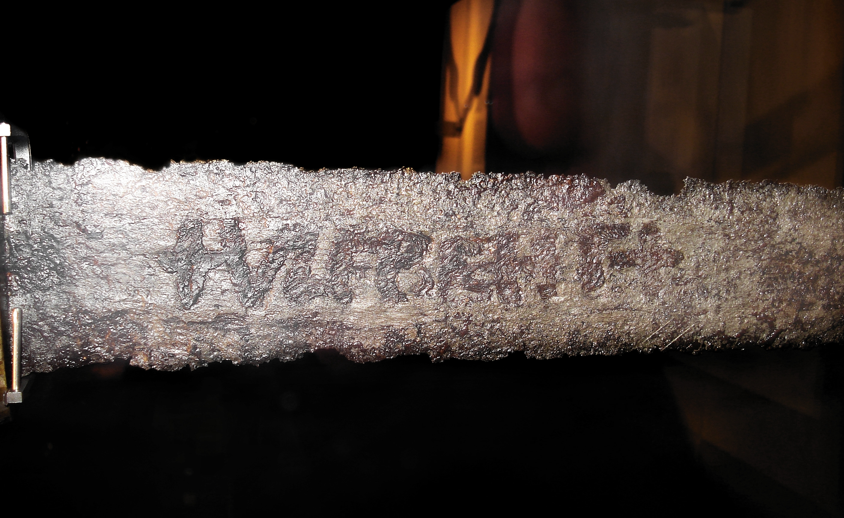 Ulfberht sword from 1st half of the 9th century, displayed at the Germanisches Nationalmuseum, Nuremberg.